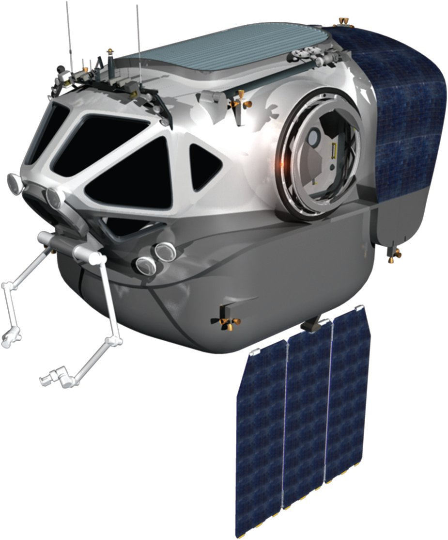 The Space Exploration Vehicle Concept — will rely on the incorporation of many advanced technologies. Examples include: Fuel Cells, Regenerative Brake, Wheels, Light-Weight Structures and Materials, Active Suspension, Avionics and Software, Extraehivcular Activity (EVA) Suitport, Thermal Control Systems, Automated Rendezvous and Docking, High Energy Density Batteries and Gaseous Hydrogen/Oxygen RCS system.